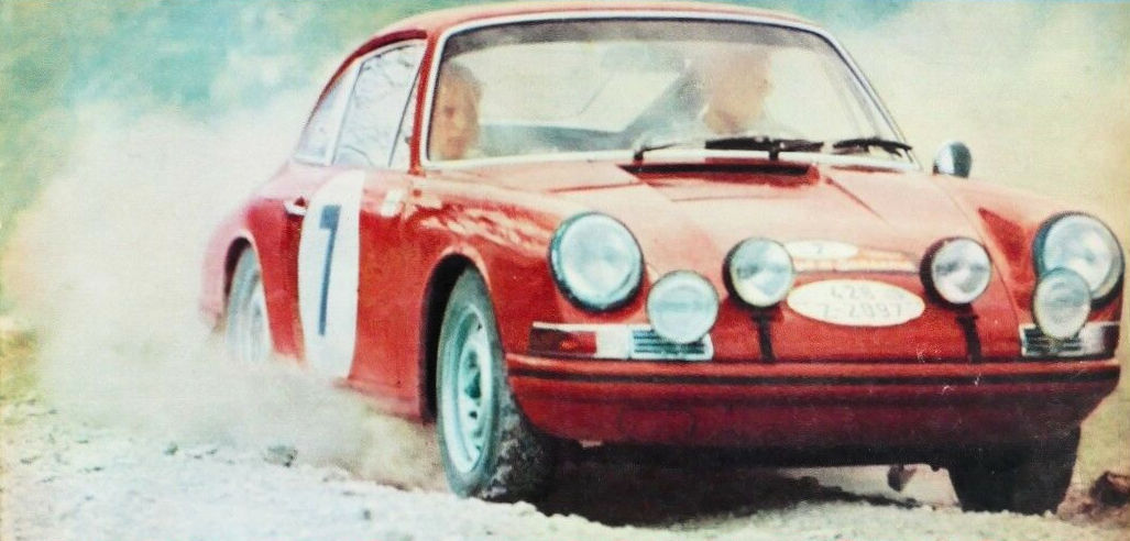 Finnish rally driver Pauli Toivonen and his co-driver Martti Tiukkanen on a Porsche 911 T of Porsche KG at the victorious 1968 Rallye Sanremo.